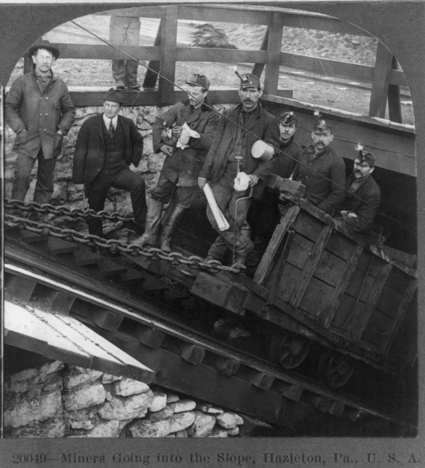 Miners Going into the Slope, Hazelton, Pa. / 5 miners in railroad car about to descend into coal mine.